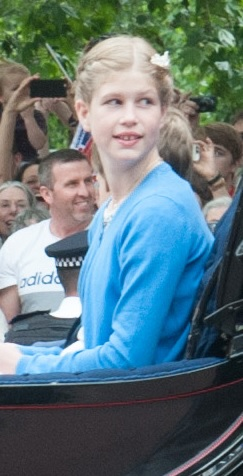 Lady Louise Windsor at Tropping the Colour 2016